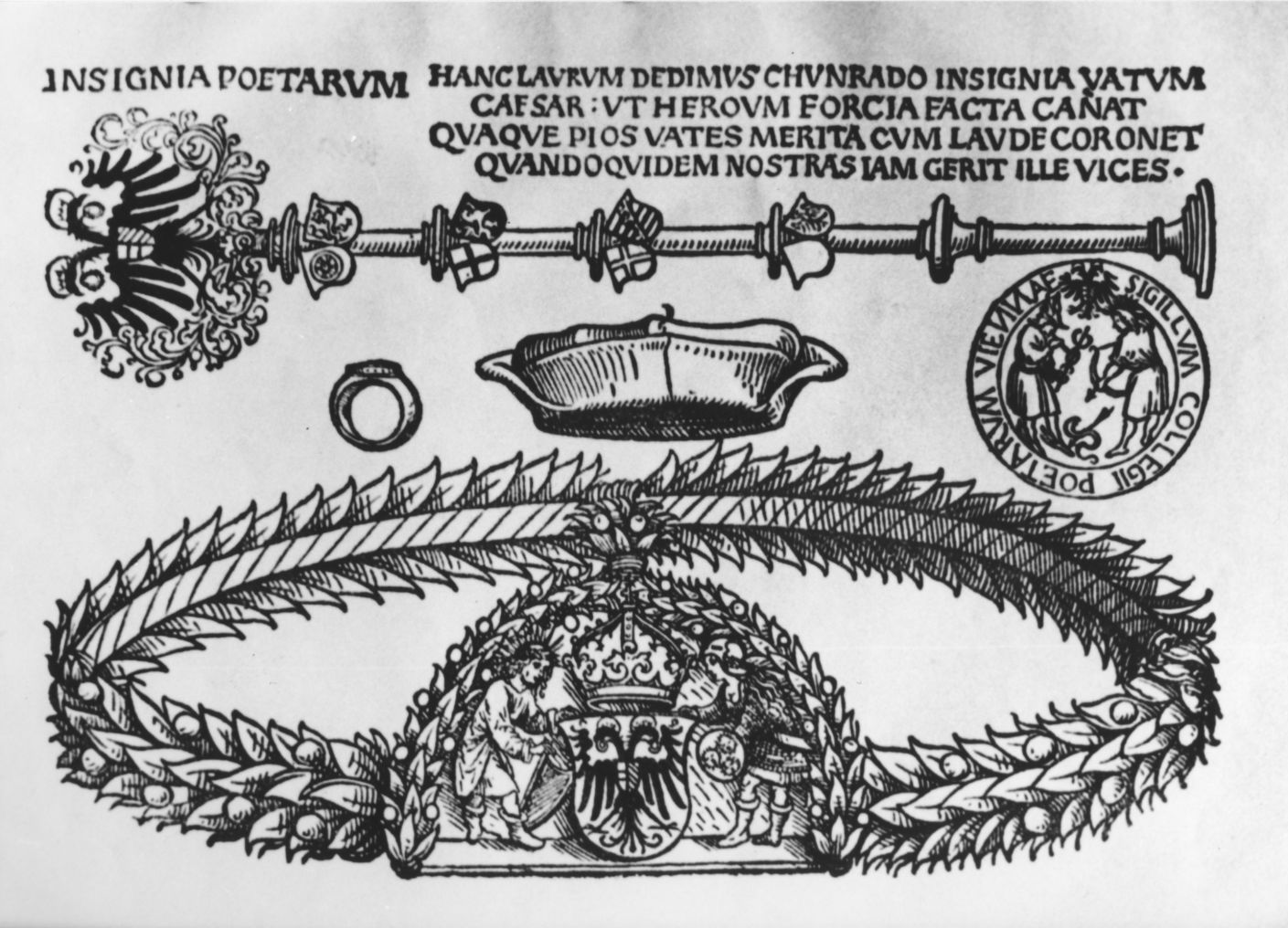 Woodcut of Hans Burgkmair of ca. 1504/1505 showing the insignia of the Collegium poetarum et mathematicorum at the University of Vienna. The insignia are: Sceptre Ring Doctoral cap Seal showing Apollo and Mercury The Dichterkrone, a golden laurel crown bearing the imperial eagle and showing Apollo and Minerva Today, only the seal stamp (die) has survived.